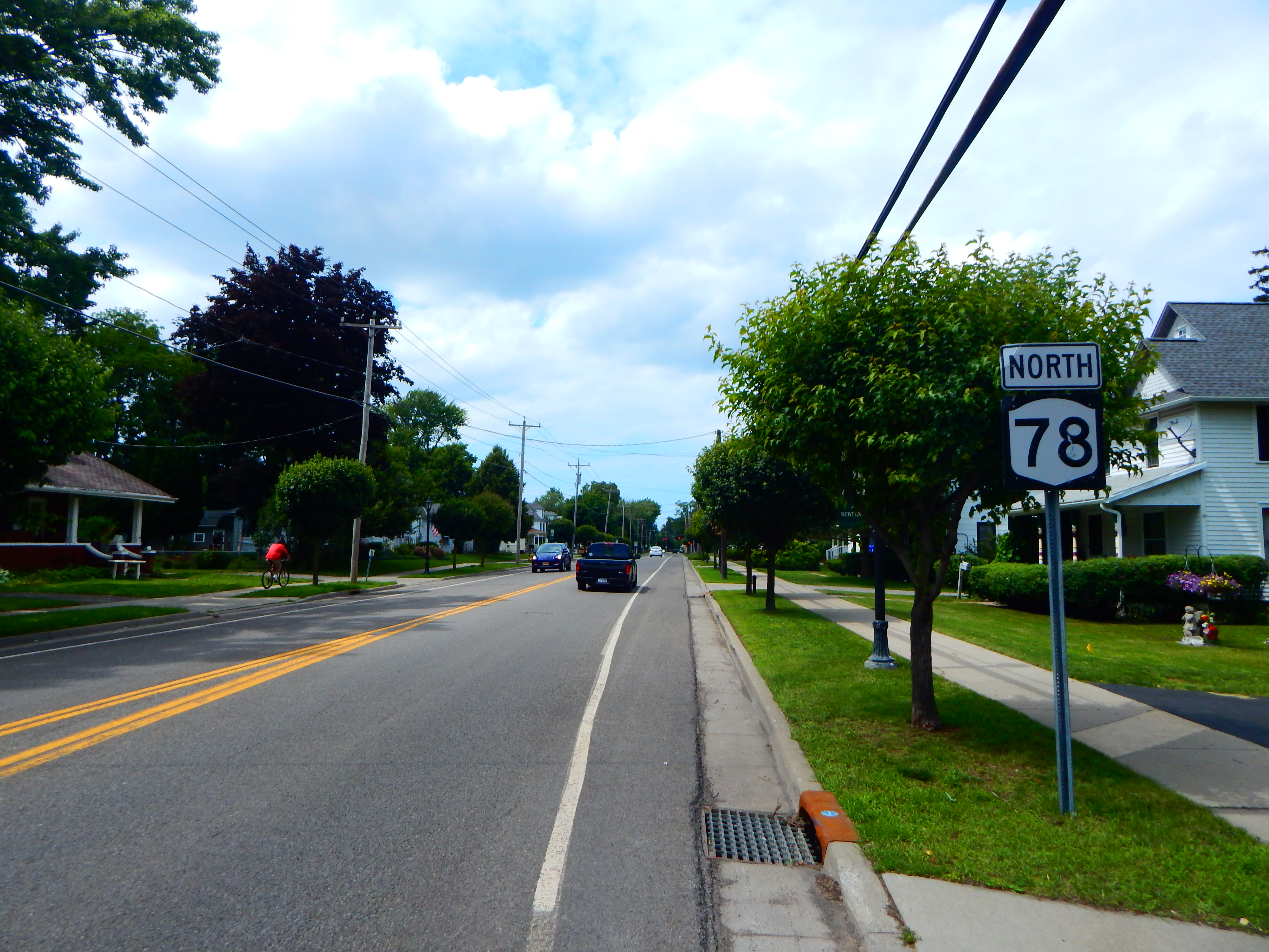 Route 78 northbound through Newfane, New York.